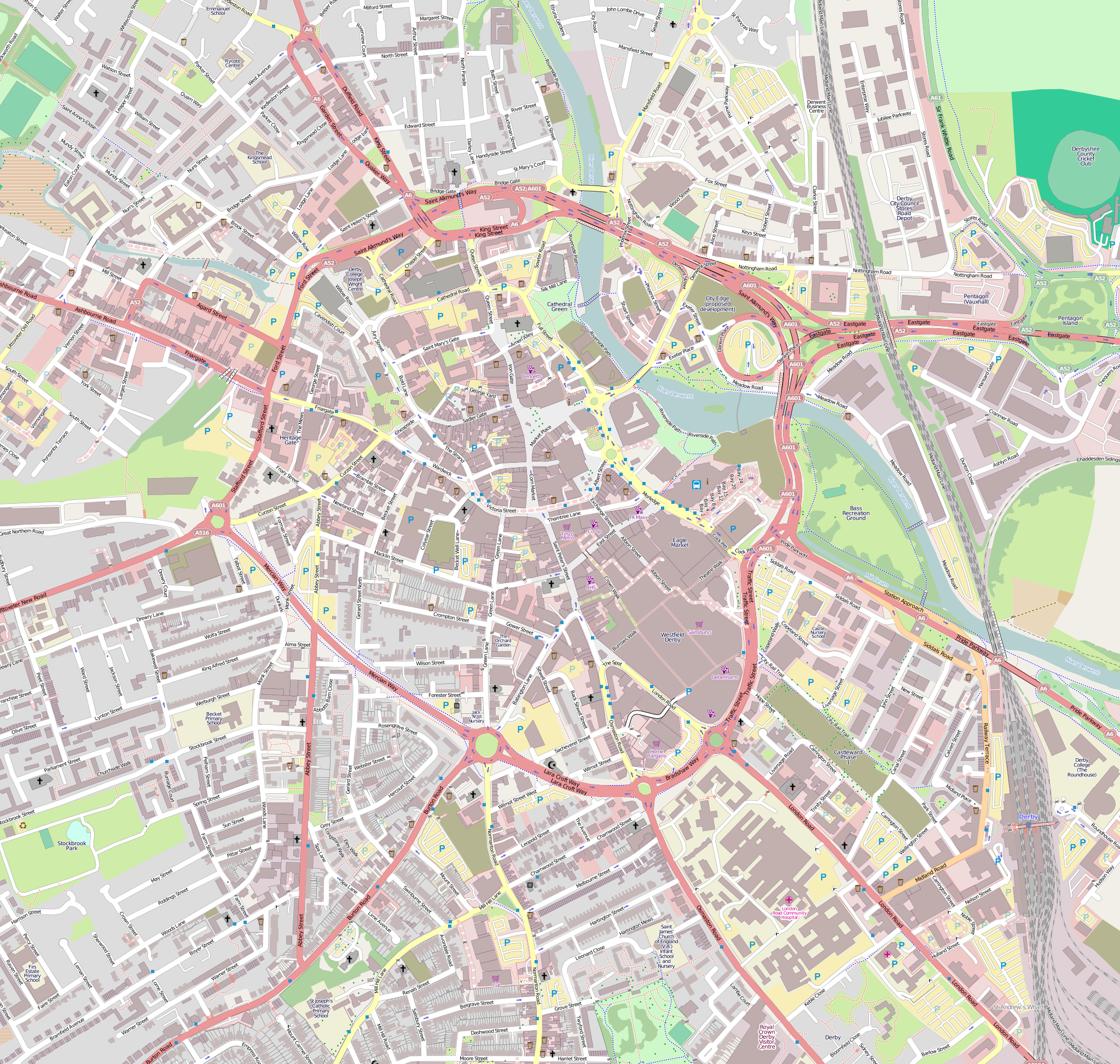 Map of Central Derby Geographical Limits: N: 52.92984° S: 52.91265° W: -1.49208° E: -1.46015°